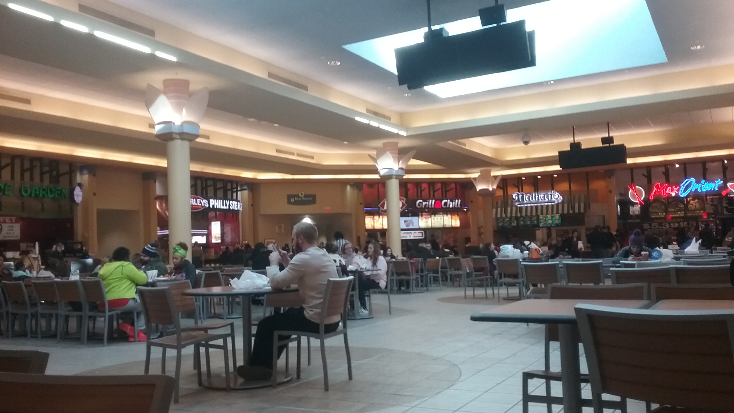 The image of the Jefferson Mall food court was taken on December 29, 2016